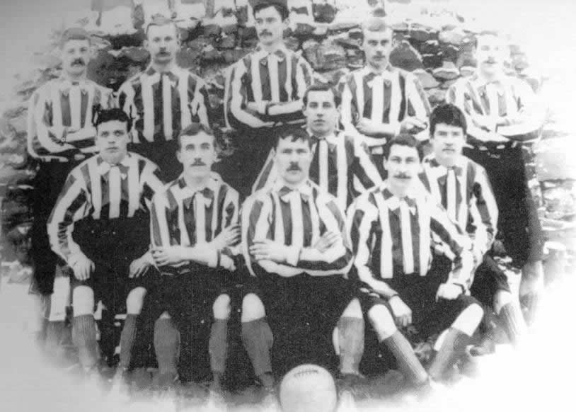 The Bury F.C. team of 1892-93. Taken from but believed to be in the public domain due to age